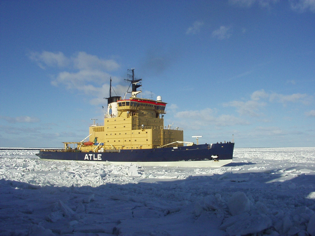 Icebreaker Atle in the ice. Taken in 2003 from the Icebreaker Ymer.